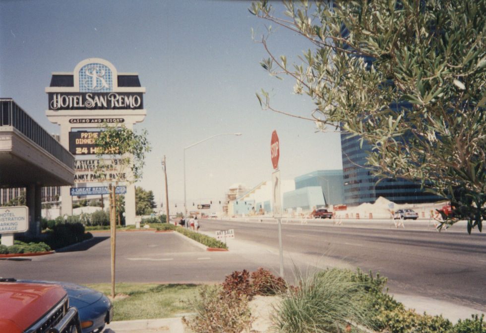 Tropicana Avenue at Hotel San Remo across from MGM Grand in Paradise, Nevada east of the Tropicana - Las Vegas Boulevard intersection.